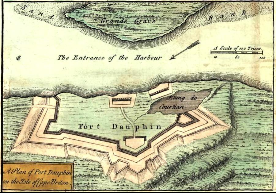 A new and accurate map of the English empire in North America; Representing their rightful claim as confirmed by charters and the formal surrender of their Indian friends; likewise the encroachments of the French, with the several forts they have unjustly erected therein.